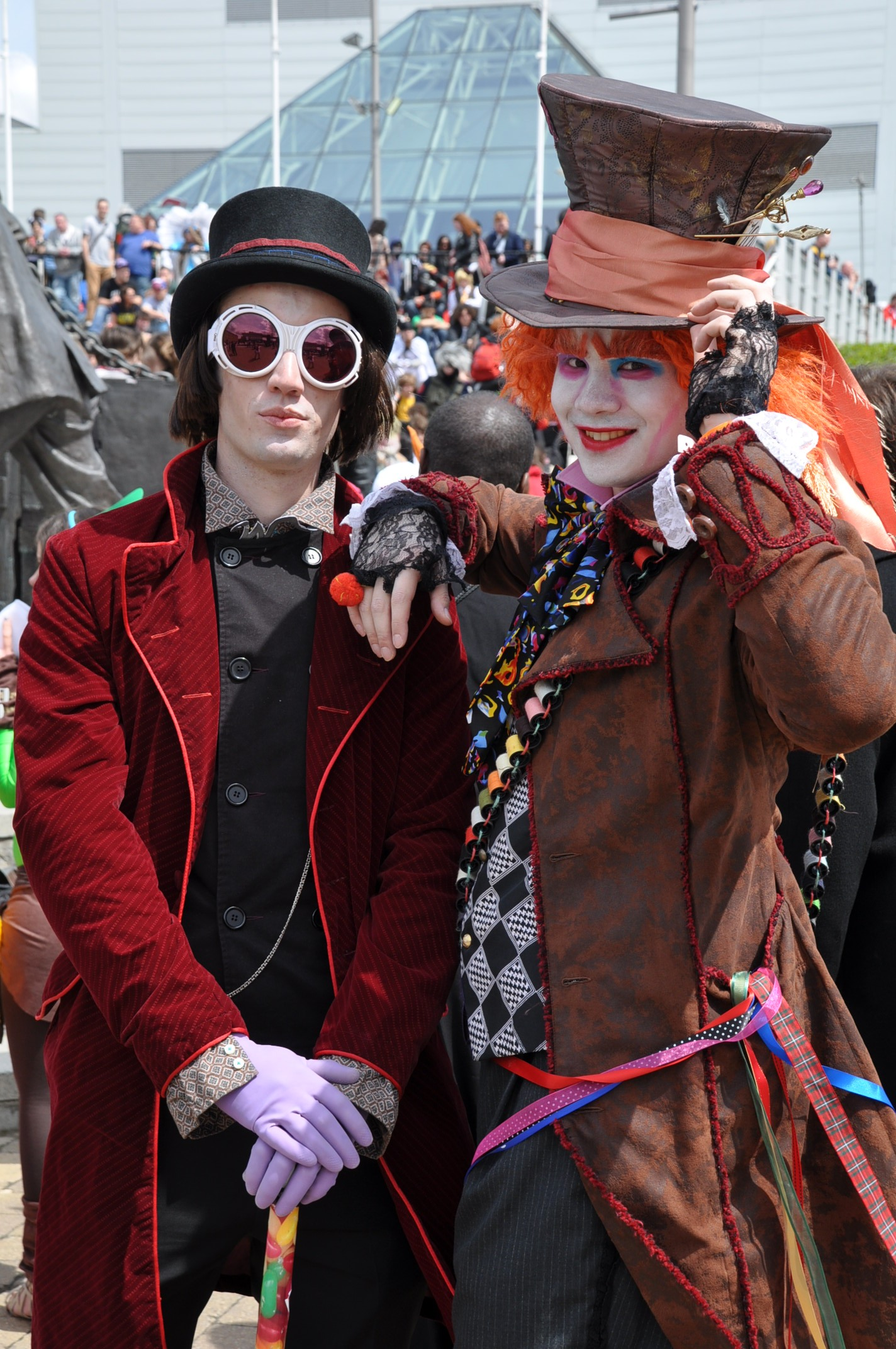 Cosplay at the Summer 2013 MCM London Comic Con at the ExCeL Exhibition Centre.